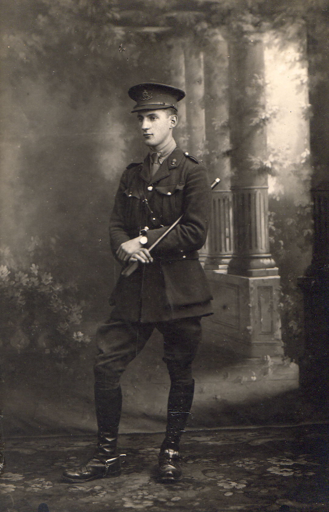 Edward Walter Langhorne (born 1900 Hong Kong) joined the Royal Artillery, served in Mesopotamia and India. After leaving the army he worked in the 1930s in oil extraction in Trinidad and was present for the Butler riots. He was present at Guayaguayare and Forest reserve. In the 1950s he worked again in oil extraction for the Ministry of Works Kaduna, Nigeria. He later lived with his wife Rose at Whitchurch, Hampshire. He was the brother of Francis Harold Langhorne who is buried at Bourlon Wood, France